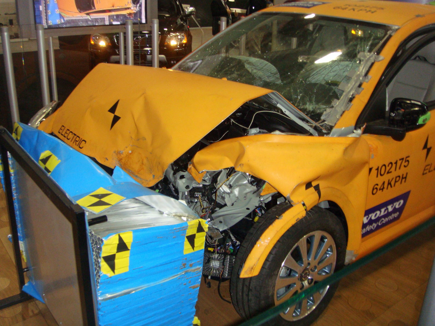 Crash-Tested Volvo C30 Electric exhibited at the 2011 Washington Auto Show